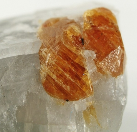 Norbergite, Calcite Locality: Oakssaung Hill, Mogok, Sagaing District, Mandalay Division, Burma (Myanmar) (Locality at ) Size: 4.2 x 3.3 x 2.3 cm. Norbergite is a rare magnesium silicate. Three gemmy and lustrous, orange-yellow norbergite crystals to 1.5 cm are frozen in a cleavage fragment of gray calcite on this rare specimen from Mogok, Burma. Very seldom available in crystals this size and gemminess. Found in 2003-2004.